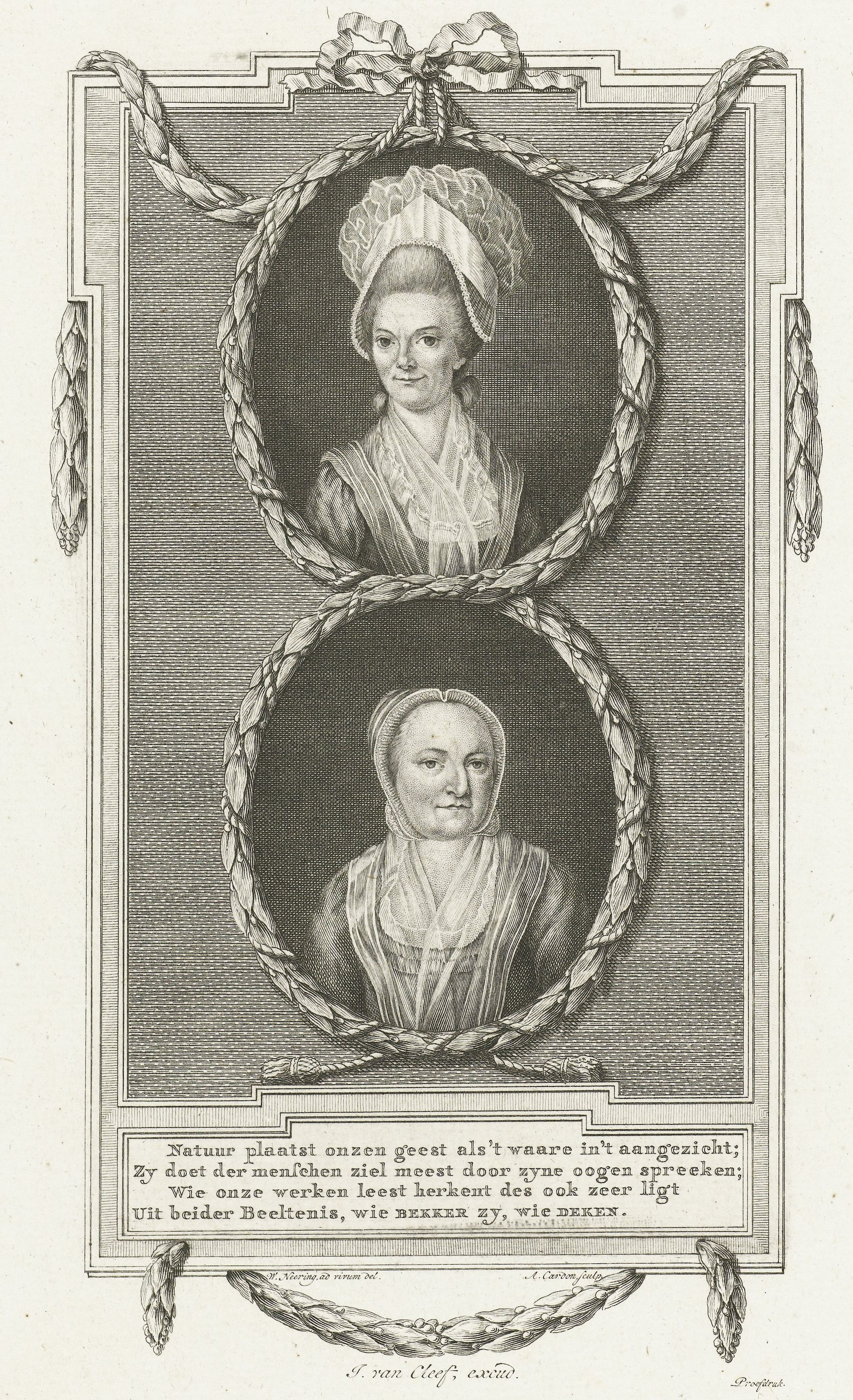 Double portrait of the eighteenth century Dutch writers Elizabeth Wolff and Agatha Deken by A. Cardon, 1784.